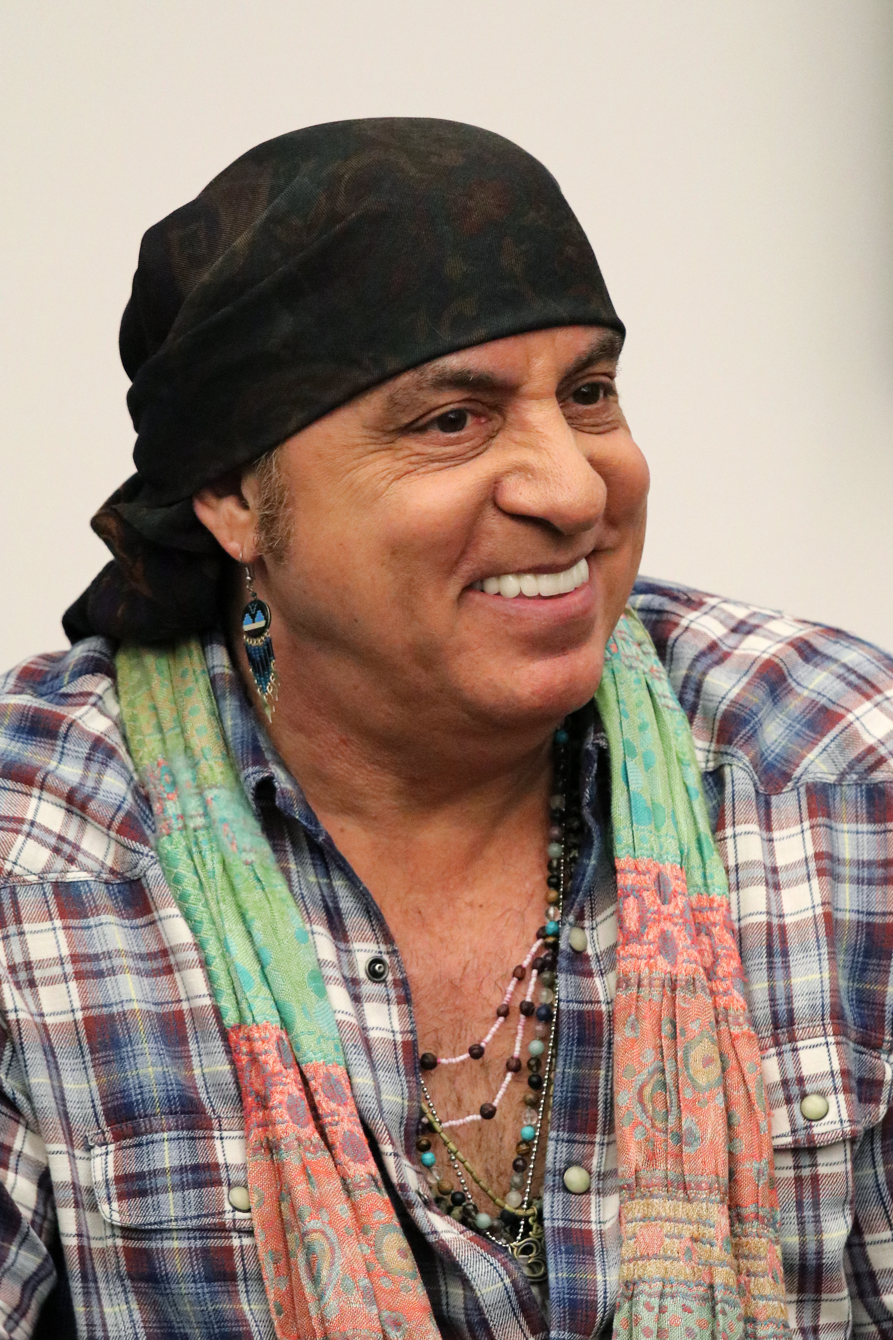 At Social Media Weekend SMWKND - Steven Van Zandt 2018